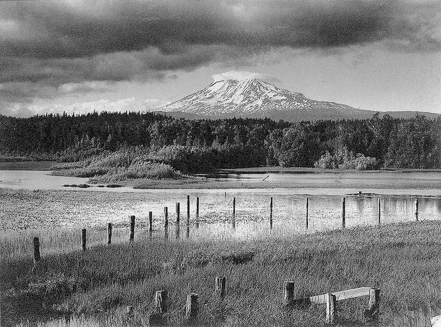 Mt. Adams viewed from Trout Lake, n.d. Photographer: Watson, Dwight Subjects (LCTGM): Adams, Mount (Wash.) Trout Lake (Klickitat County, Wash. : Lake) Cascade Range Mountains--Washington (State) Lakes & ponds--Washington (State) Digital Collection: Dwight Watson Photographs Item Number: DWA189 Persistent URL: Visit Special Collections reproductions and rights page for information on ordering a copy. University of Washington Libraries. Digital Collections